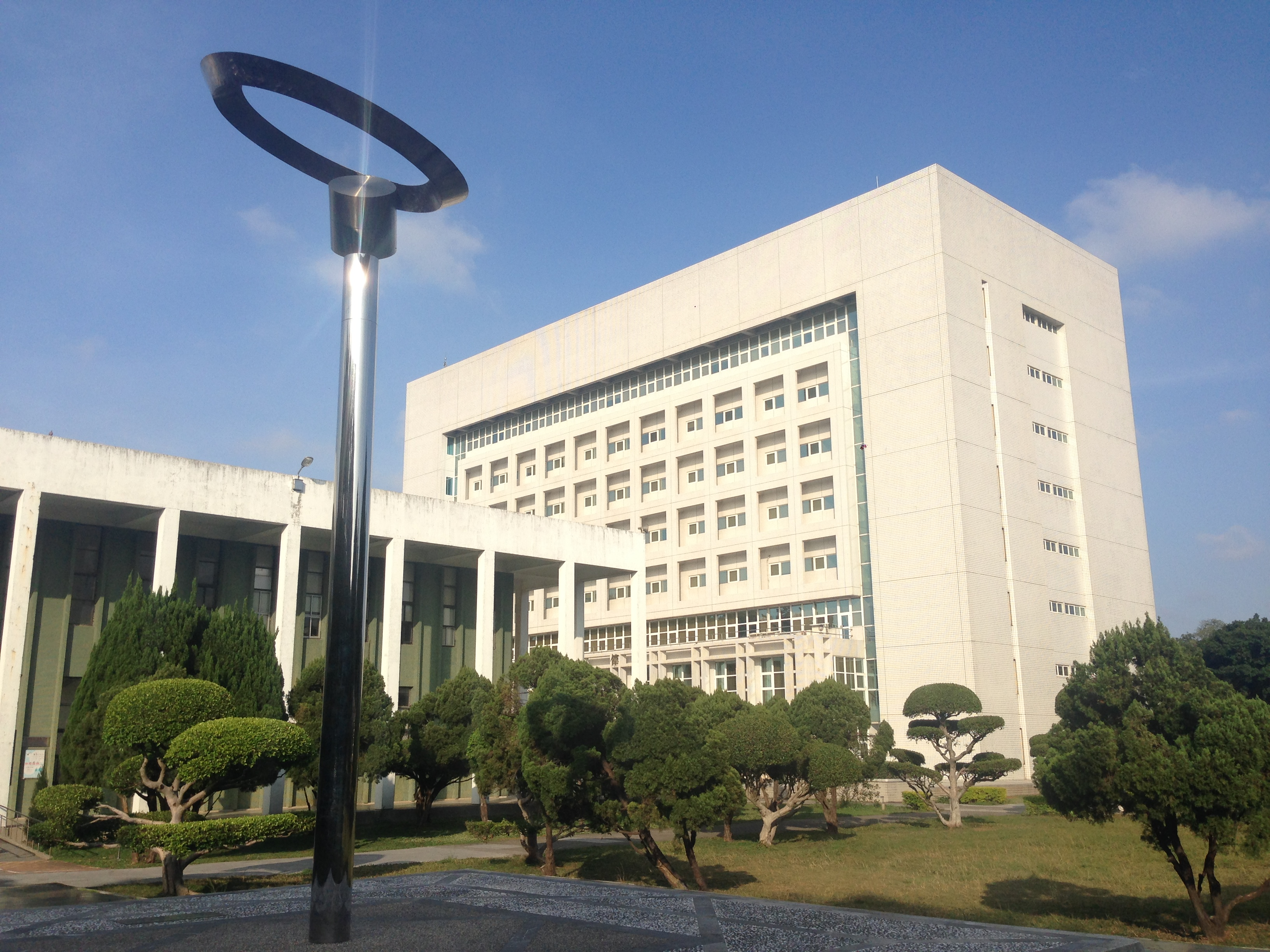 NCU libraries